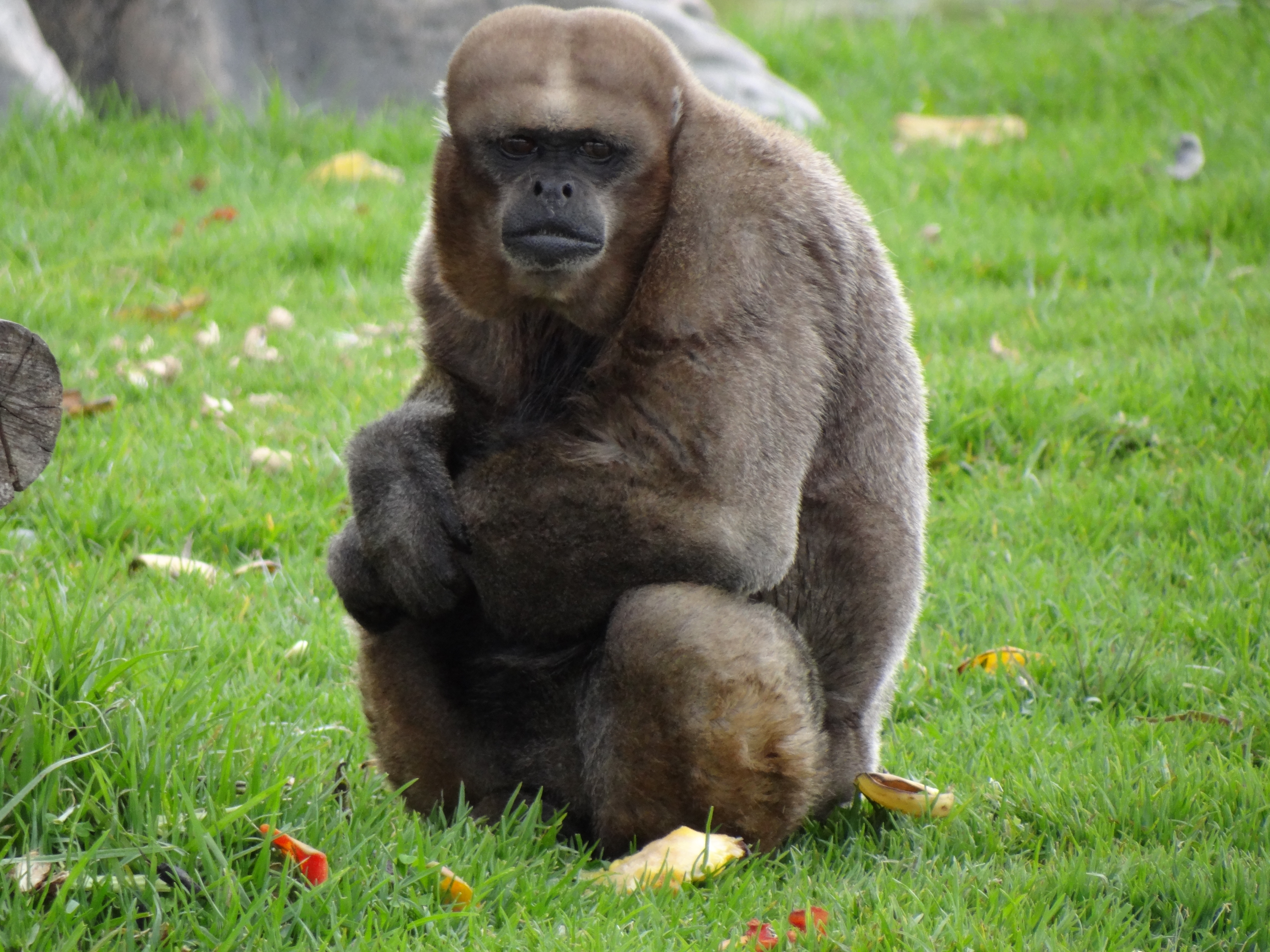 Lagothrix lagotricha (mono lanudo)